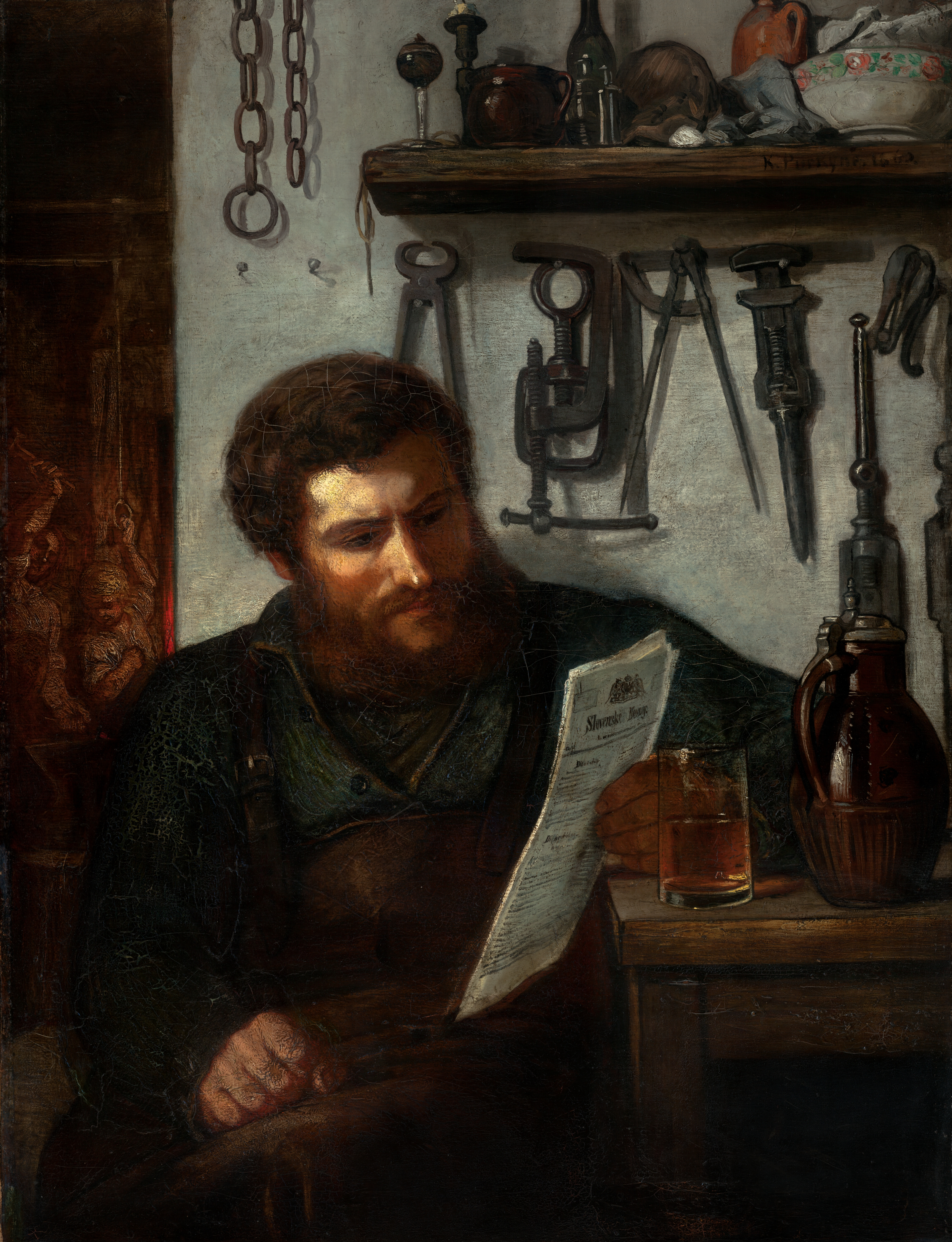 Portrait of blacksmith Jech in his workshop reading Slovenské noviny.